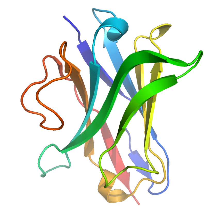 Structure of a camelid VHH domain unligated. Rendered using PyMol 0.99 and crystal structure data from PDB (1I3V)